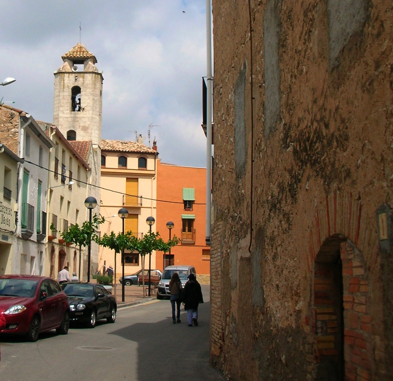 Main street in La Serra d'Almos